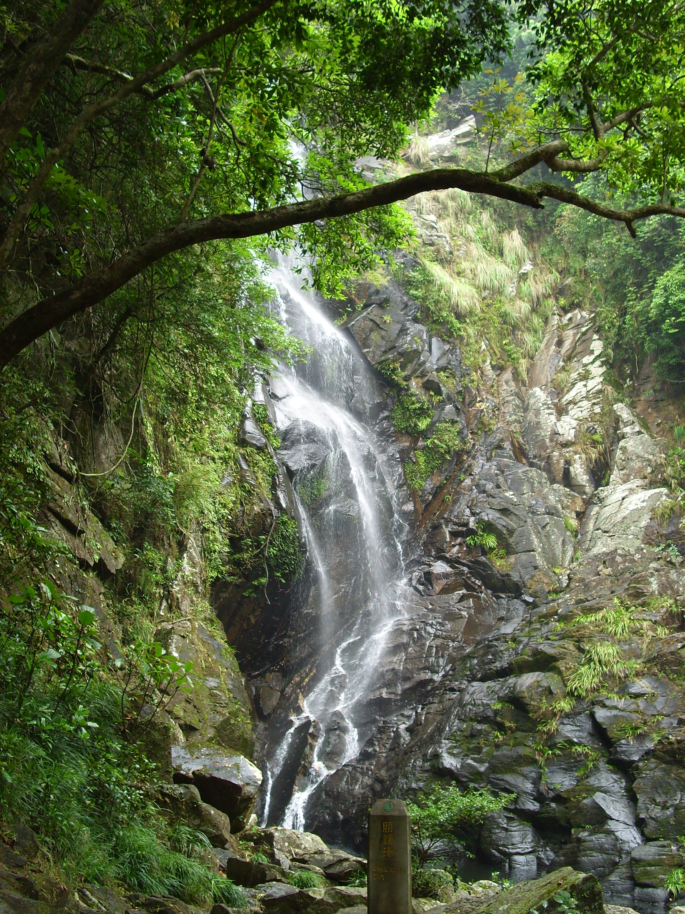 Mirror Pool Waterfall